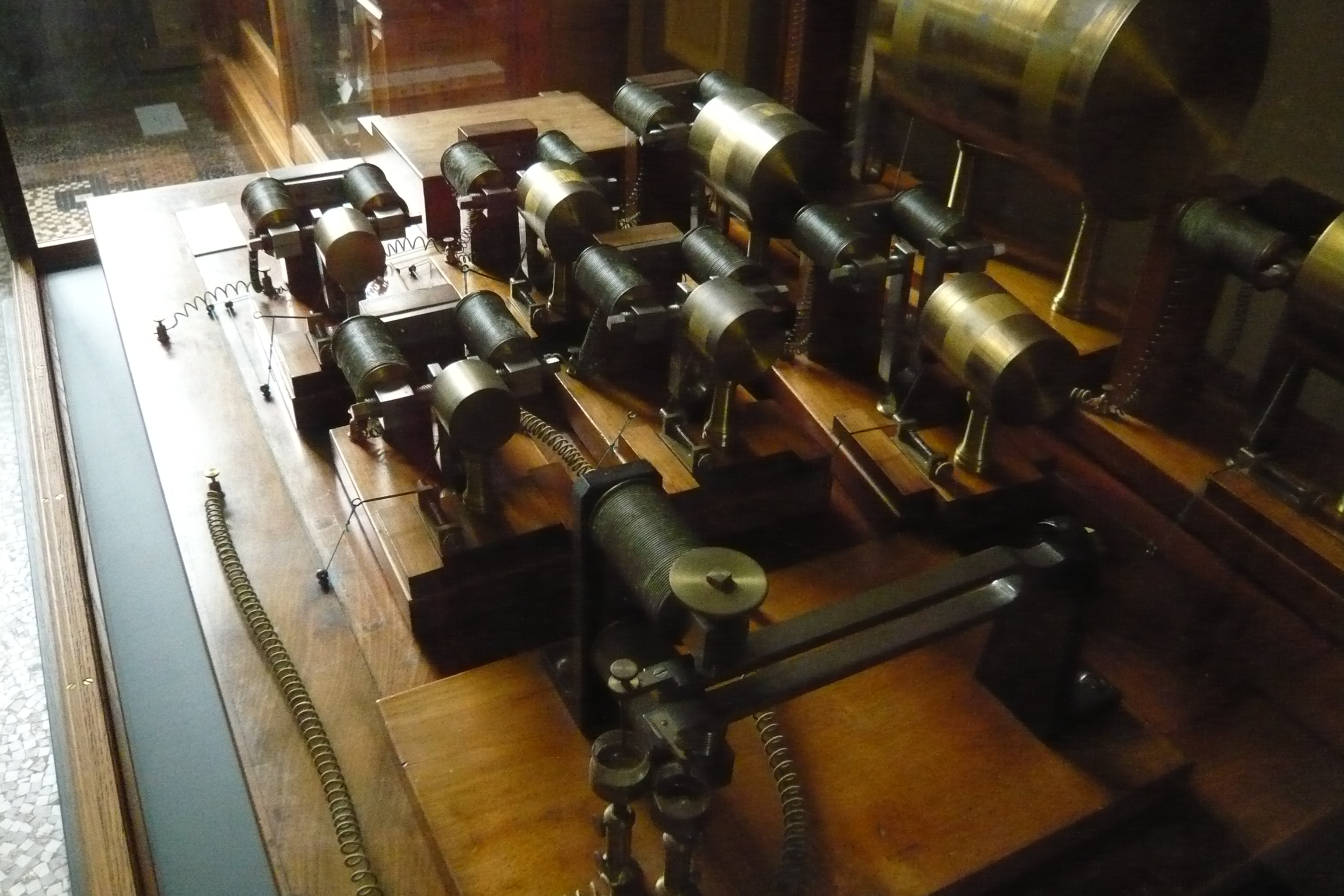 Instrument room, Teylers Museum, The Netherlands Synthesizer after Helmholtz by Koenig 1865